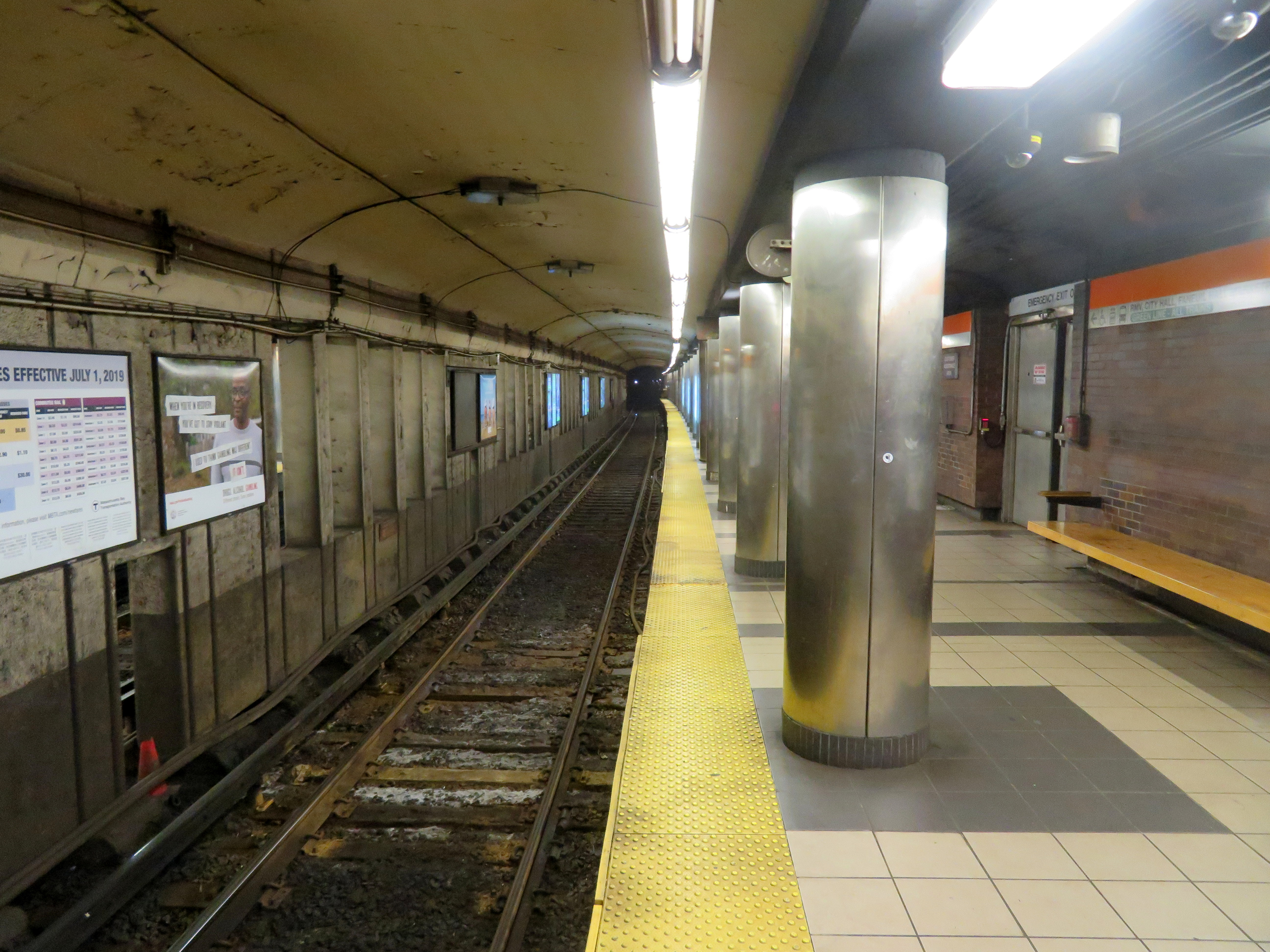 The northbound Orange Line platform at Haymarket station in July 2019